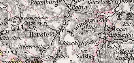 Detail from a map of Hesse.